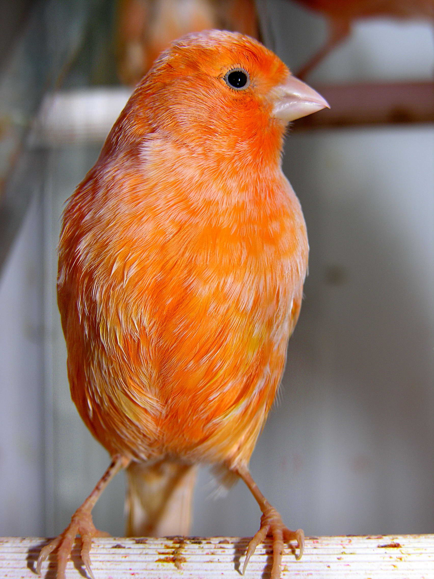 Publish by= Luis Miguel Bugallo Sánchez. Self made